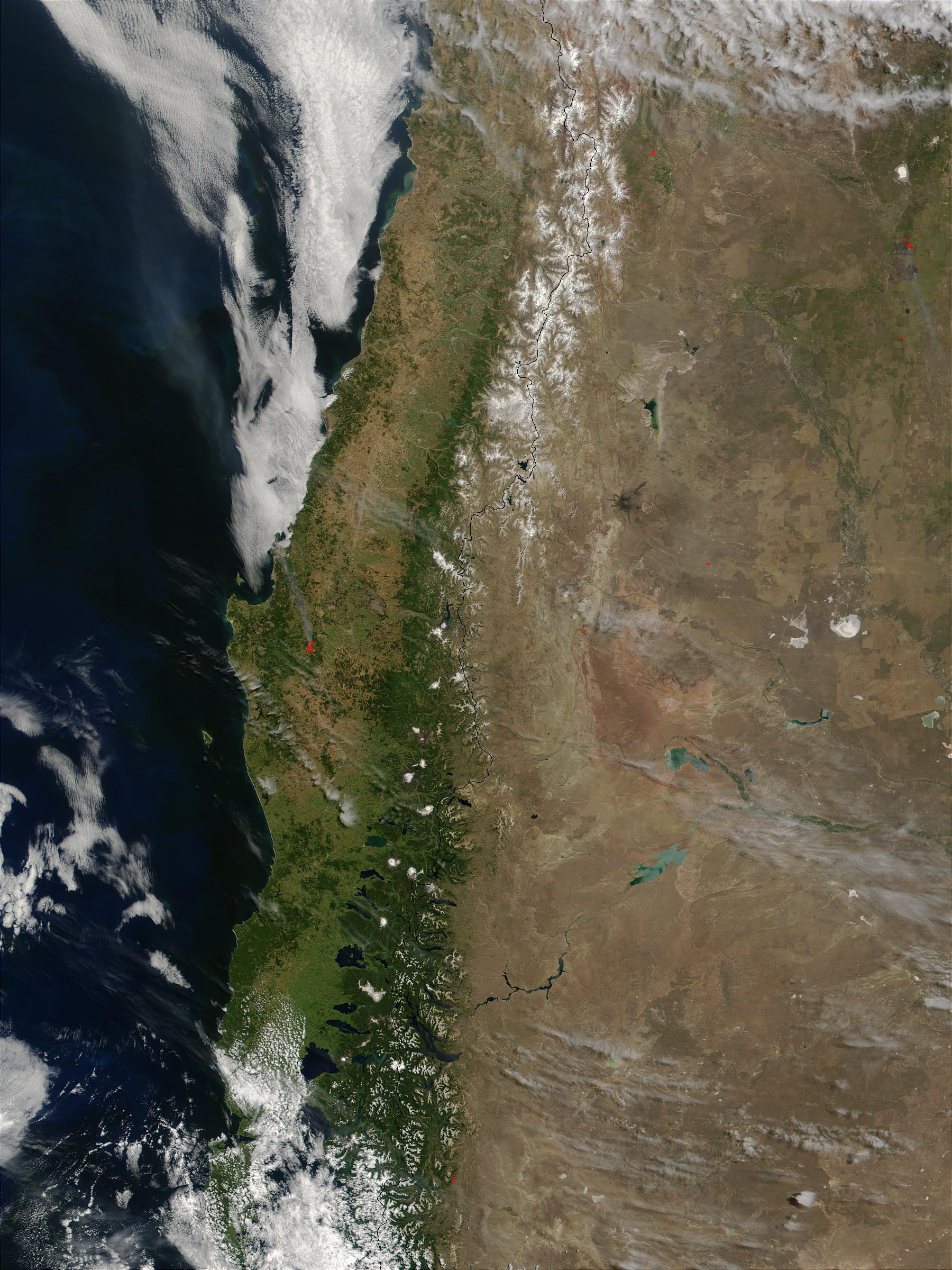 Terra - MODIS satellite image of Chile and Argentina.